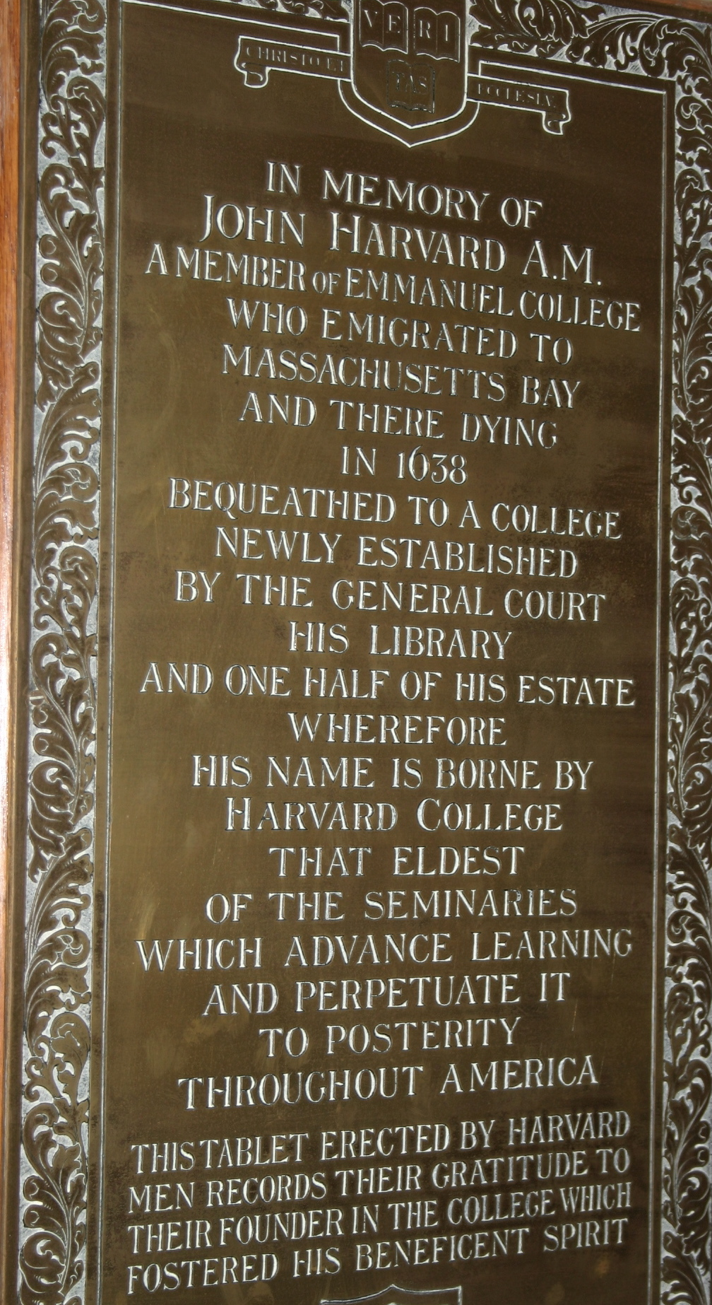 Tablet at Emmanuel College, Cambridge University, honoring John Harvard